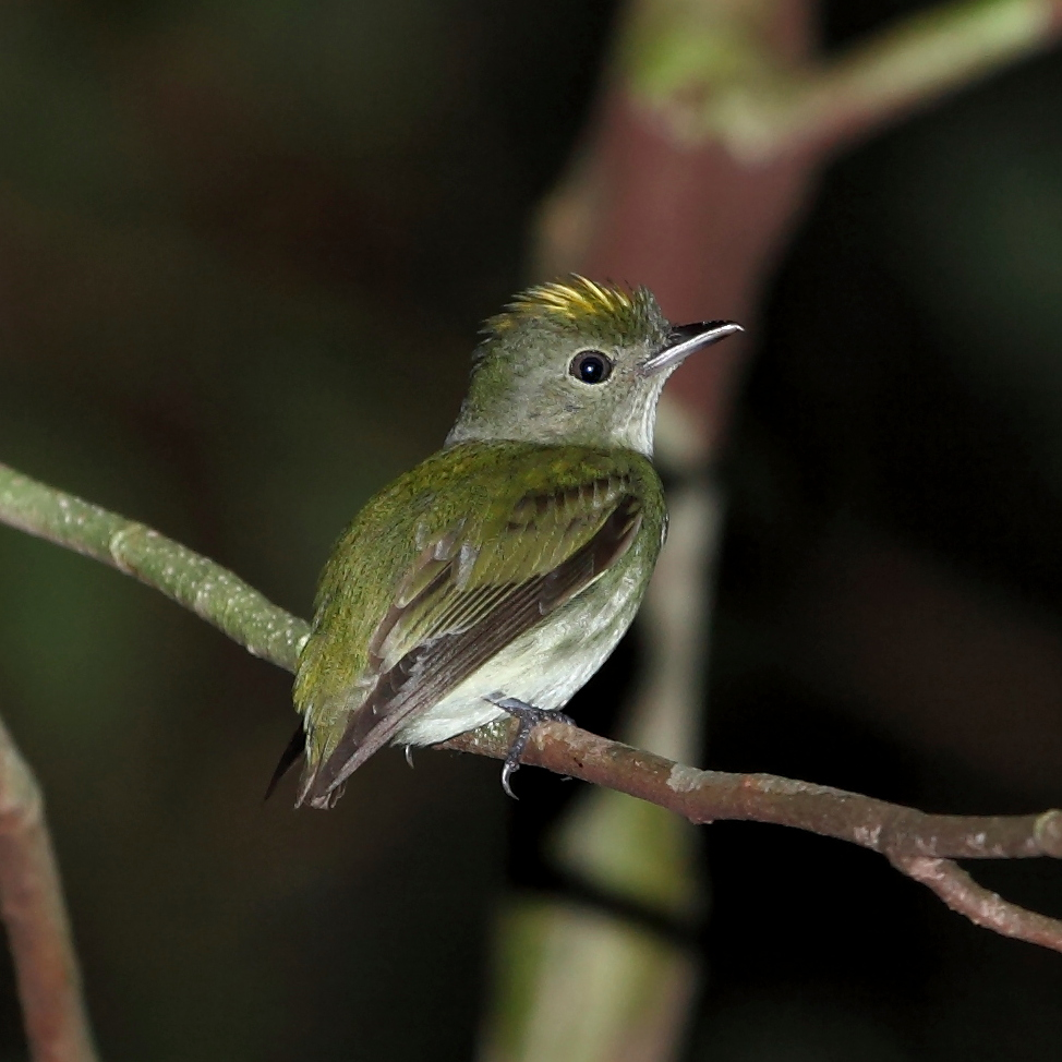 Tiny-tyrant Manakin at Manaus - AM - Brazil